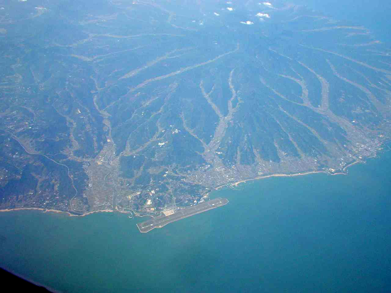 Oita airport seen from the air.